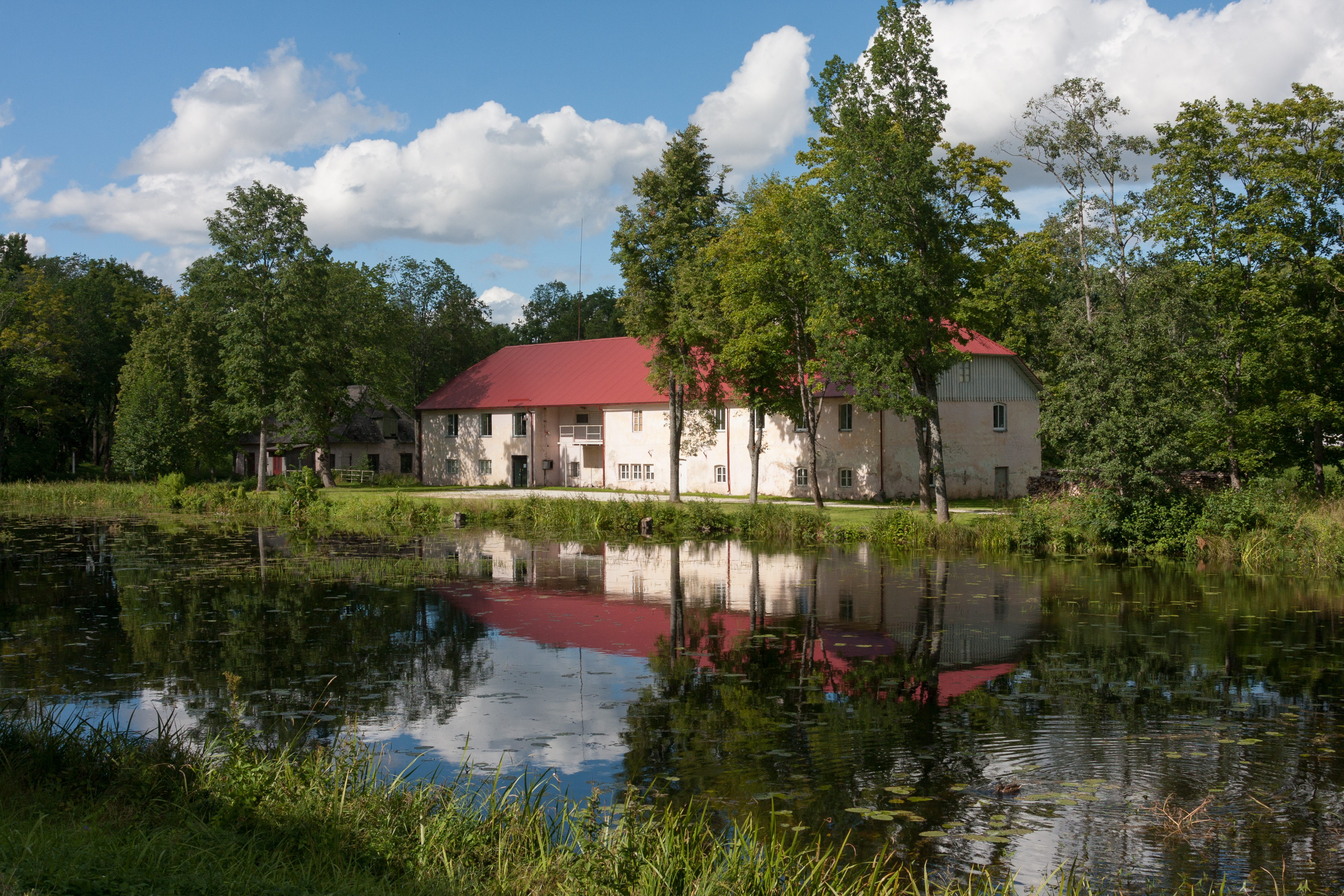 Põltsamaa River.